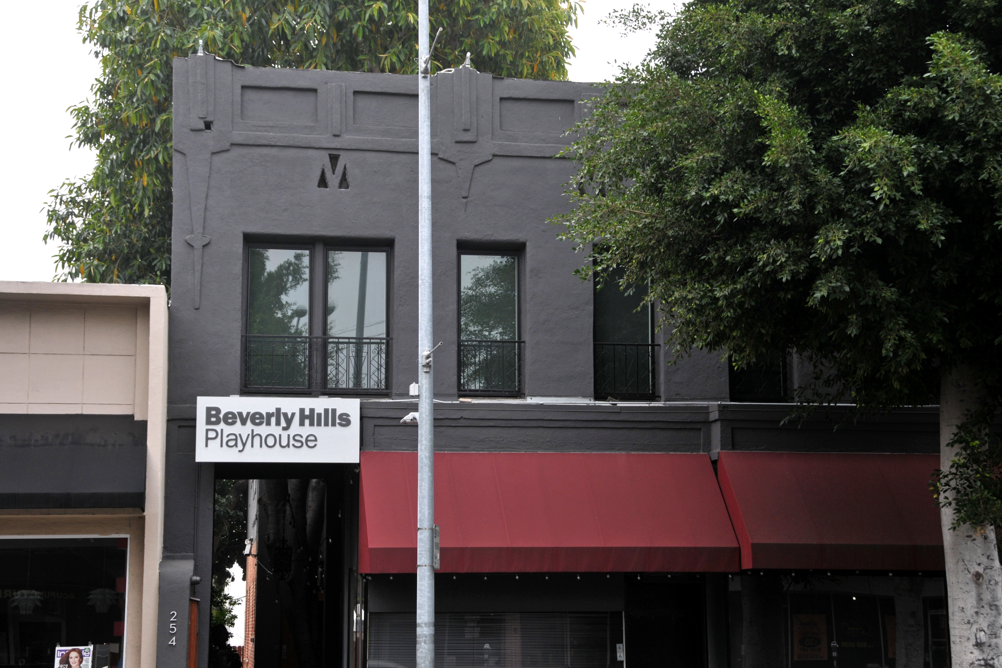 Beverly Hills Playhouse, Beverly Hills, California - Photo by Glenn Francis of